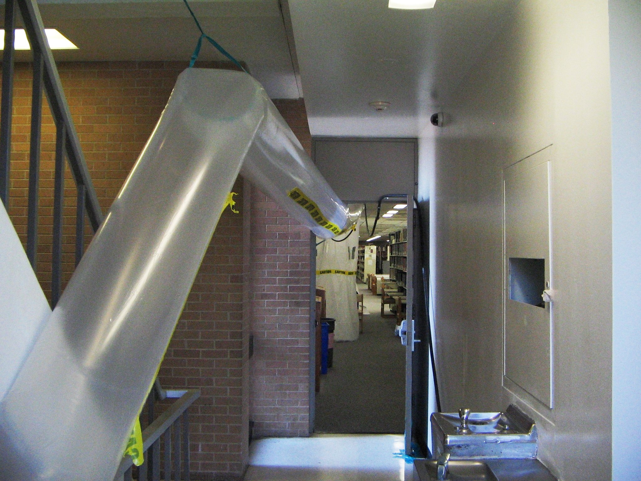 A temporary plastic air duct leading out from a location where asbestos abatement is taking place. The air duct carries out filtered air from a negative air pressure (suction) machine that draws in air and thus prevents the escape of asbestos fibers. (Among other sources, more information is in the University of Connecticut Asbestos Abatement information sheet.)